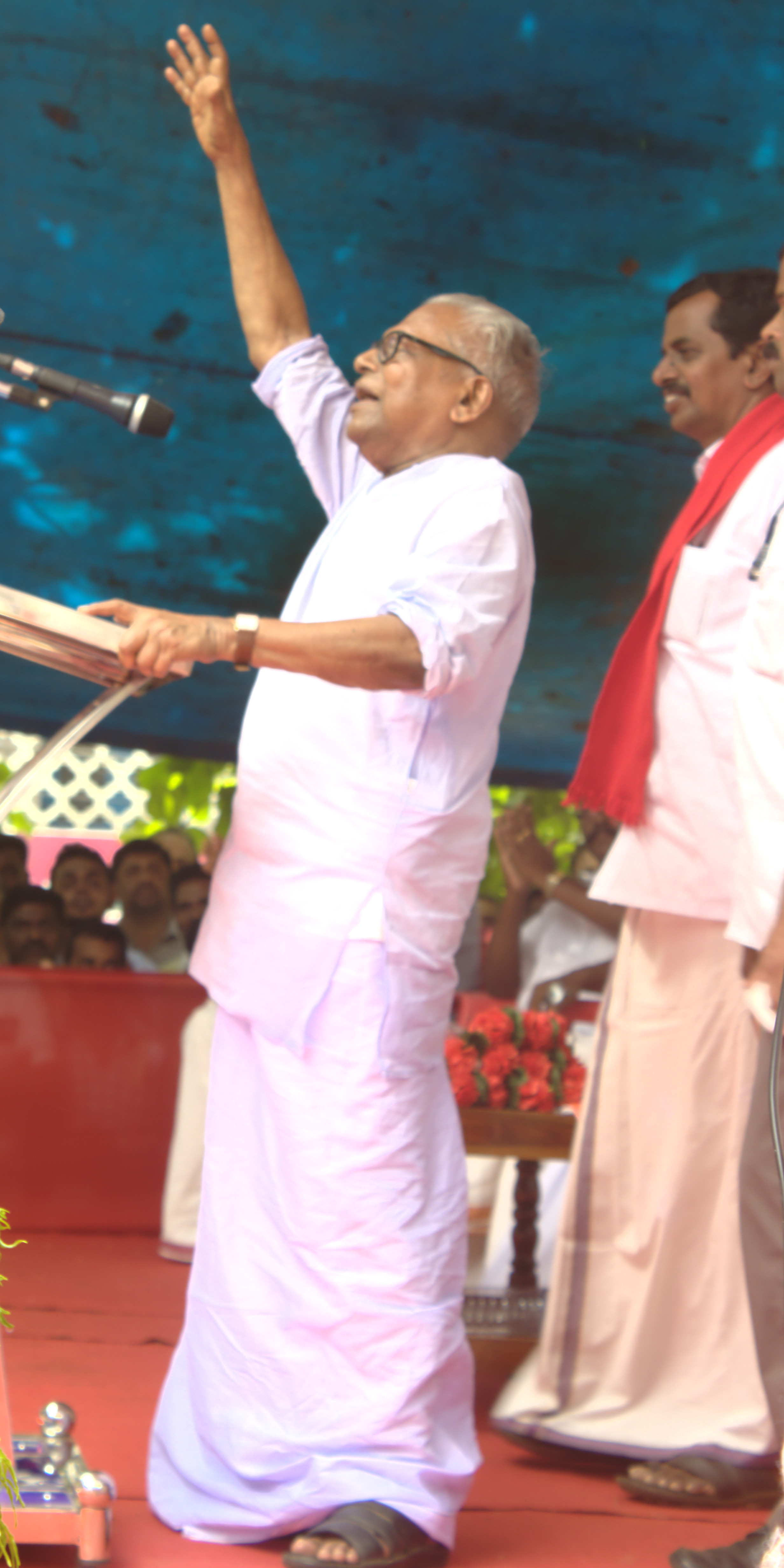 V. S. Achuthanandan campaigning for LDF Candidate for Kanjirappally niyamasabha constituency - V.B. Binu at Ponkunnam Rajendra ground.